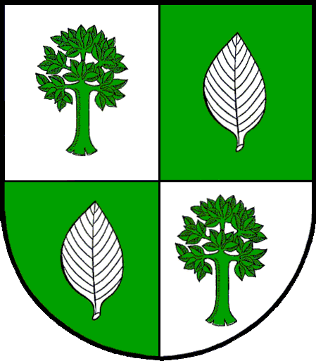 Coat of arms of the municipality Buchholz in Schleswig-Holstein, Germany.